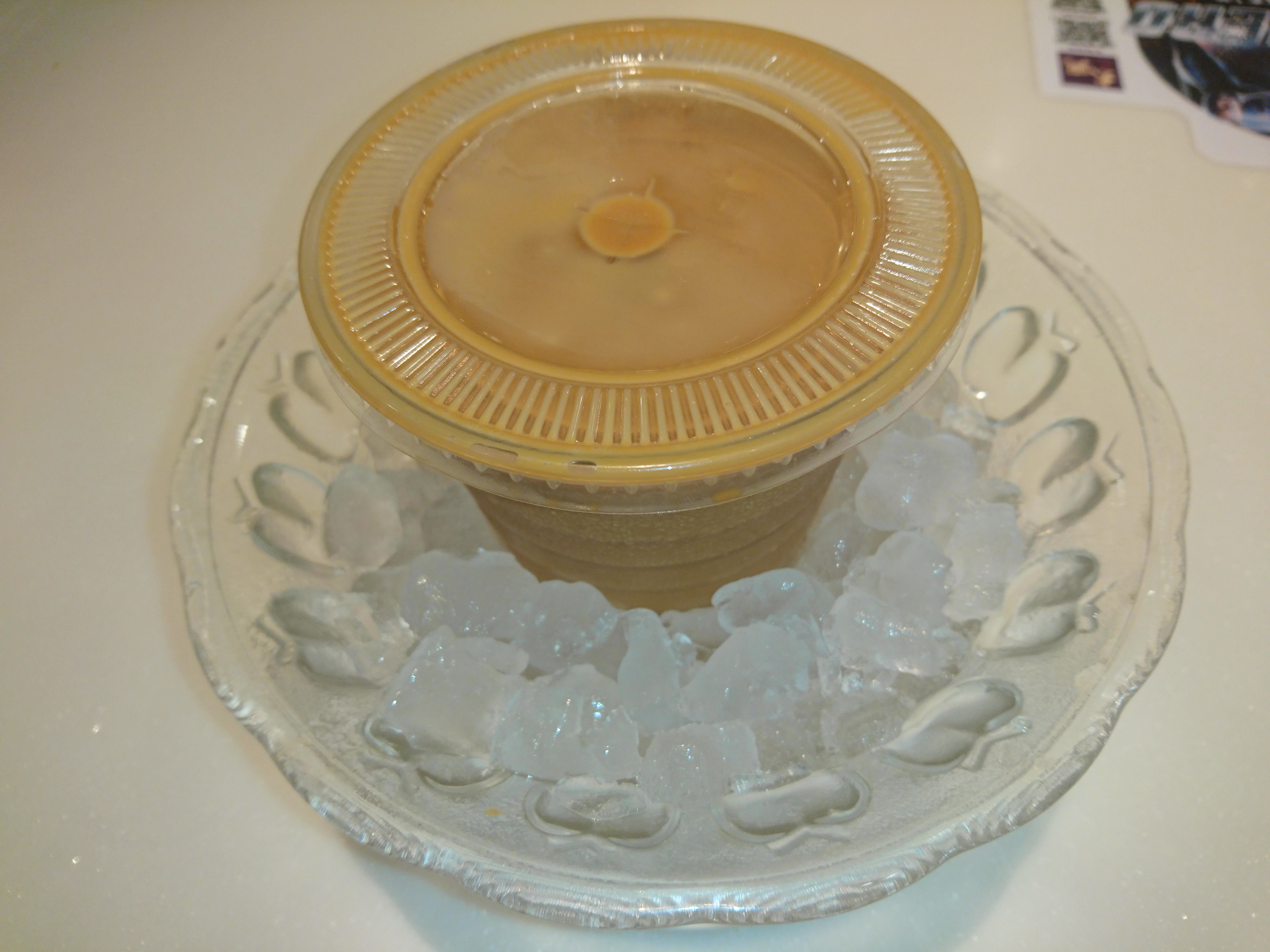 Ice Chilled Milk Tea